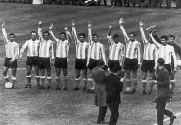 Argentina national team salutes to the crowd during the match against Spain in the 1966 World Cup disputed in England.